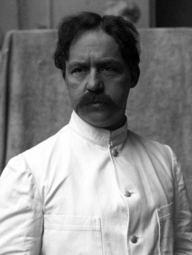 French sculptor Paul Landowski (1875-1961).